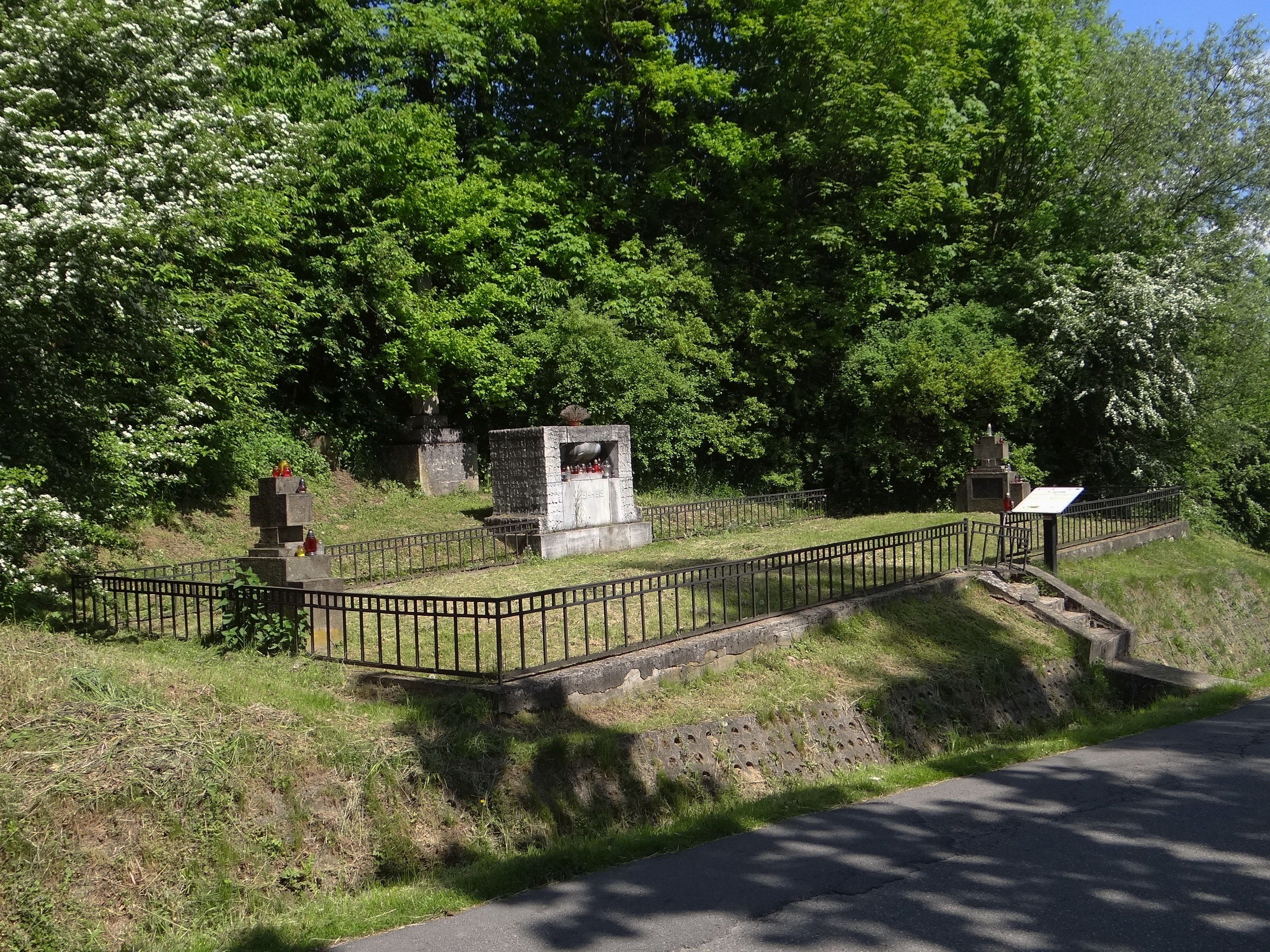 World War I Cemetery nr 146 in Gromnik